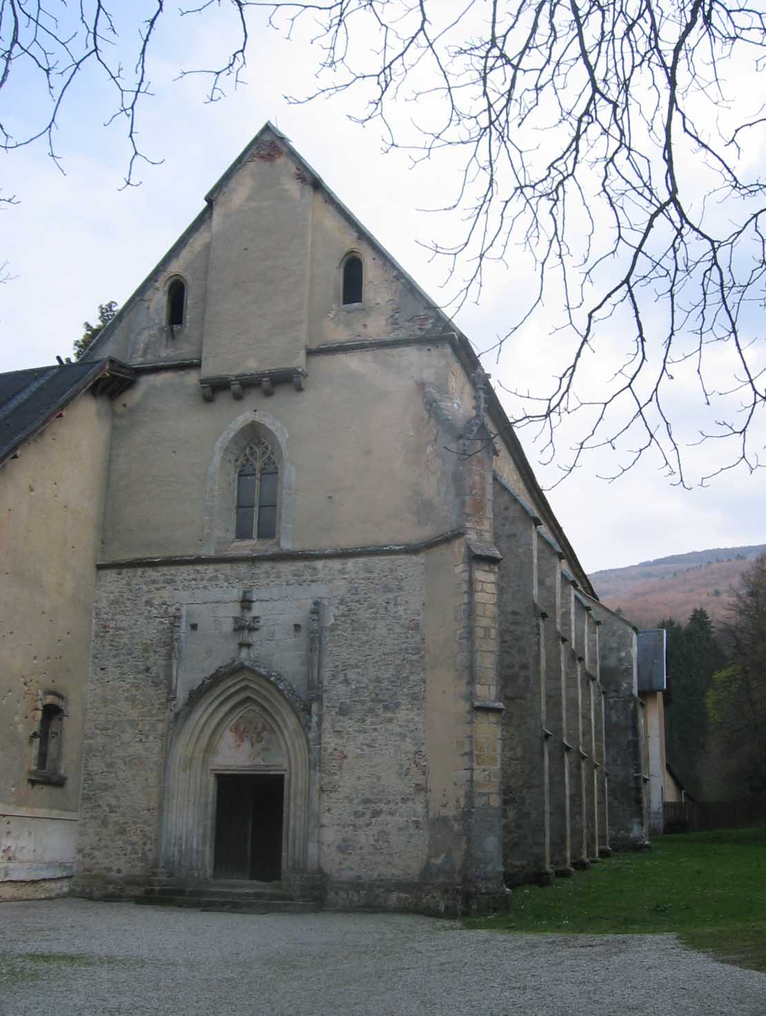 Pleterje, monastery in Slovenia - gothic church photo:Ziga 08:07, 2 April 2007 (UTC)